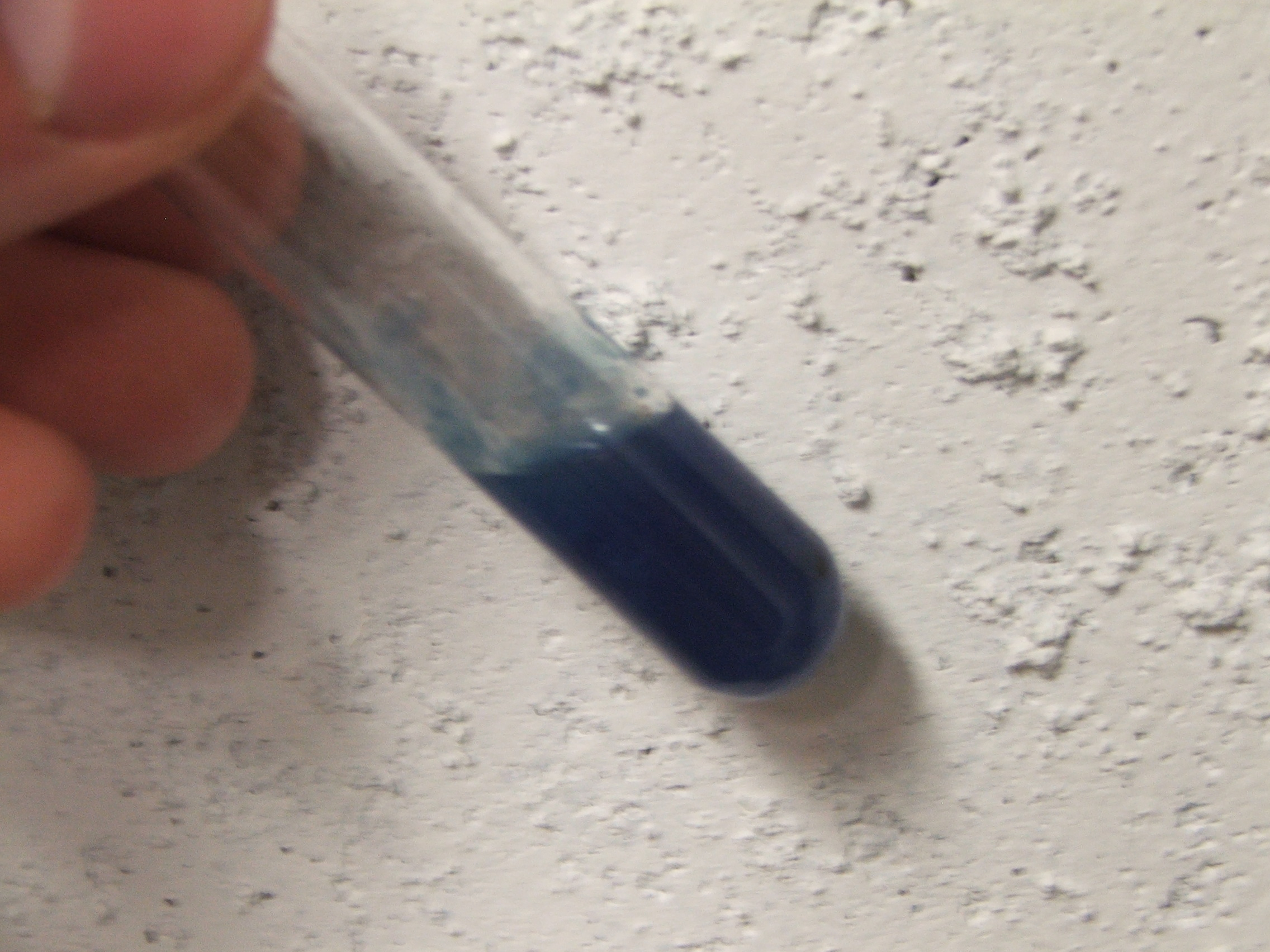 Blue cobalt hydroxide made by reacting sodium hydroxide and cobalt(II) chloride